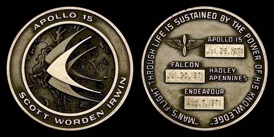 One of the 304 Robbins Medallions made for the Apollo 15 mission. The present owner of this medallion is former NASA worker Phil Konstantin.